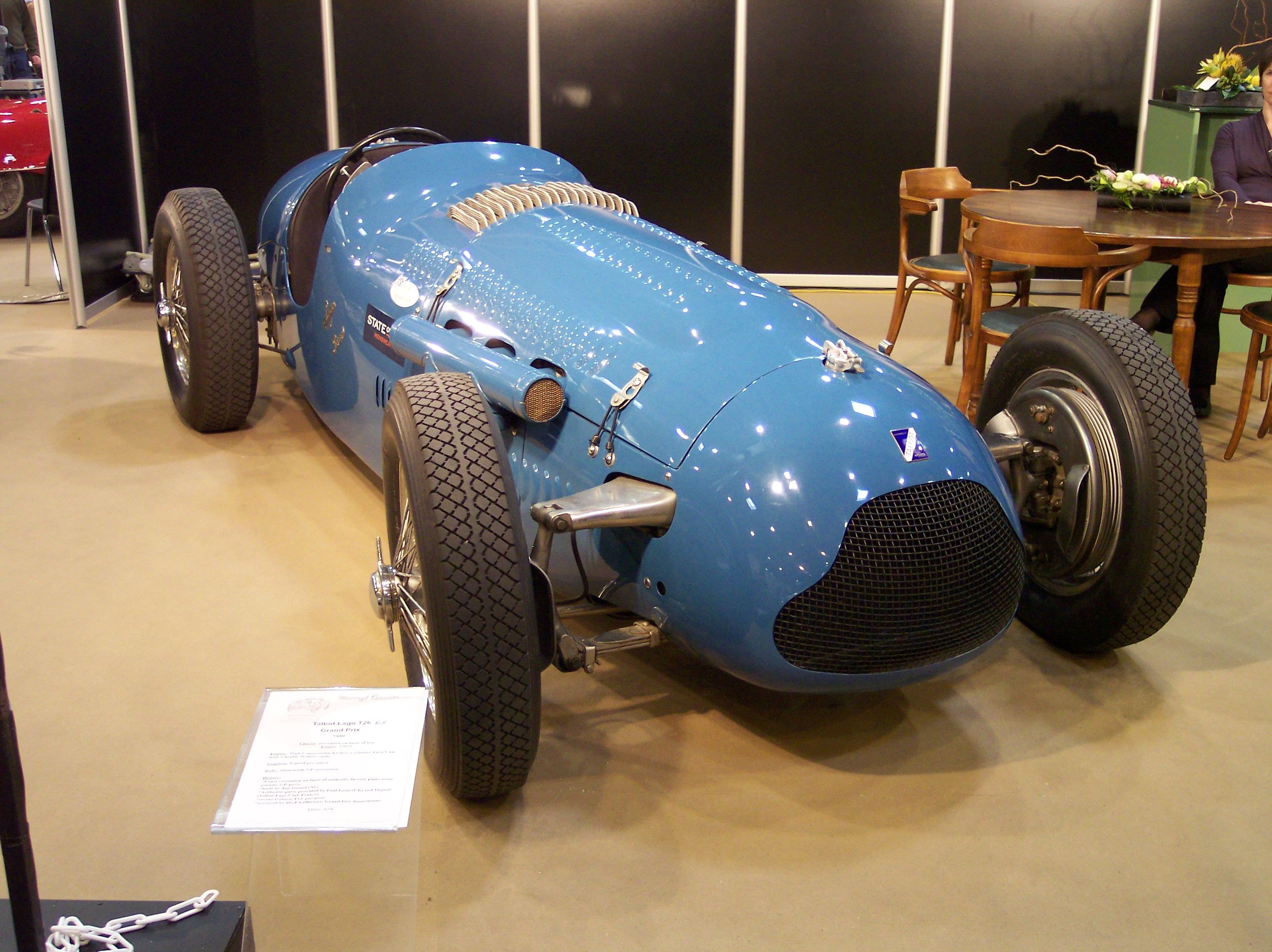 Talbot-Lago T26 Grand Prix 1949